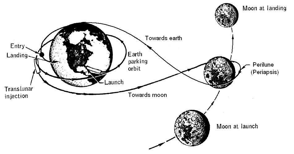 A sketch of a circumlunar free return trajectory (not to scale). Created by myself based on NASA's Apollo mission profiles (